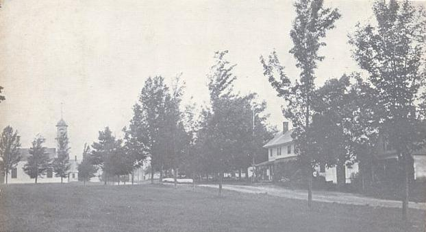 The Common, Unity, NH; from a c. 1904 postcard.